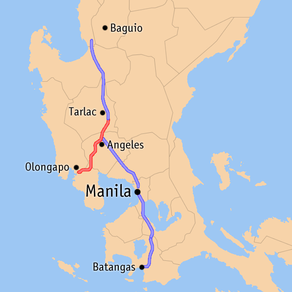 Map of expressways on Luzon in the Philippines, highlighting the Subic–Clark–Tarlac Expressway